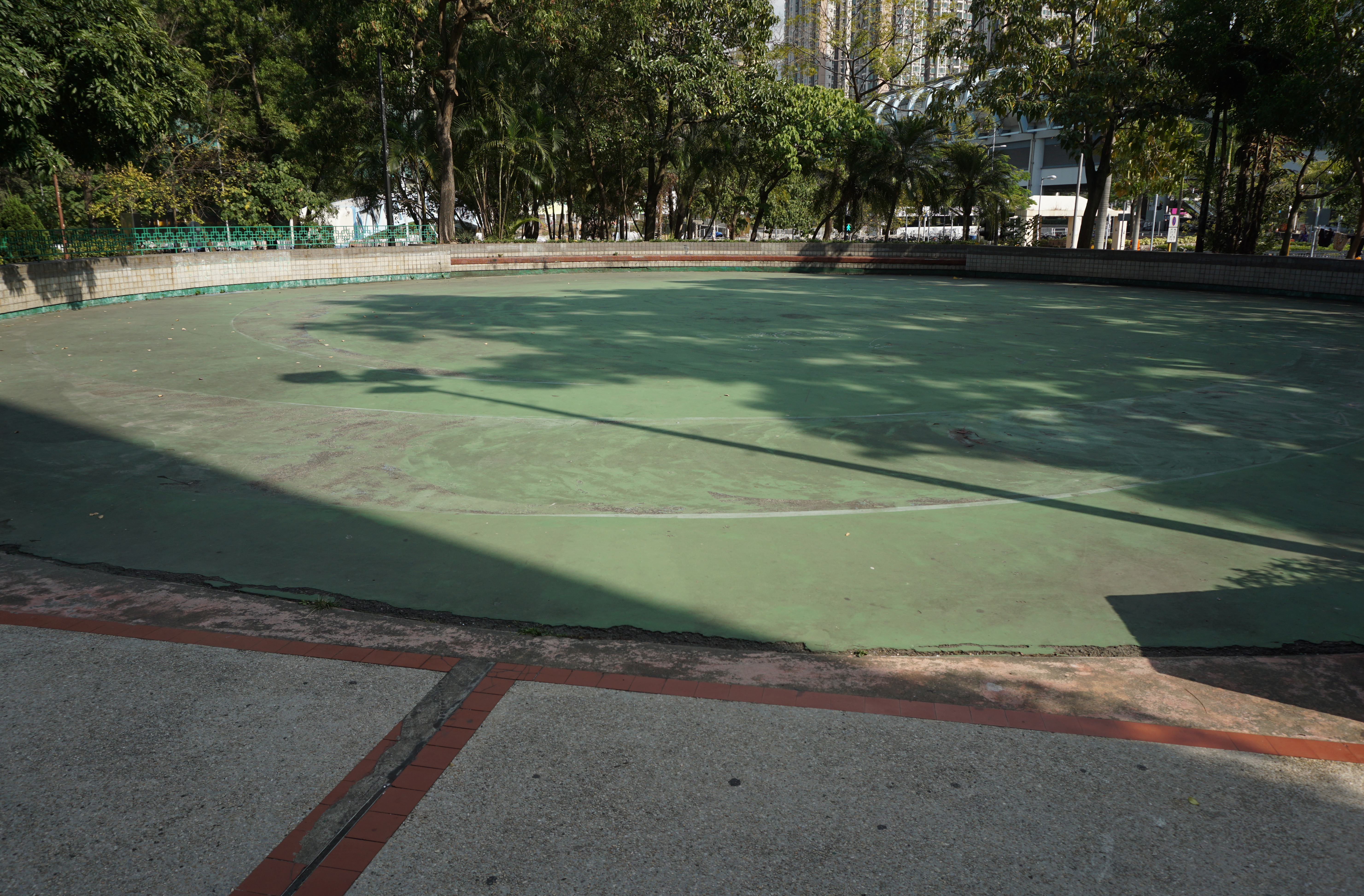 Long Ping Estate in Yuen Long, Hong Kong.